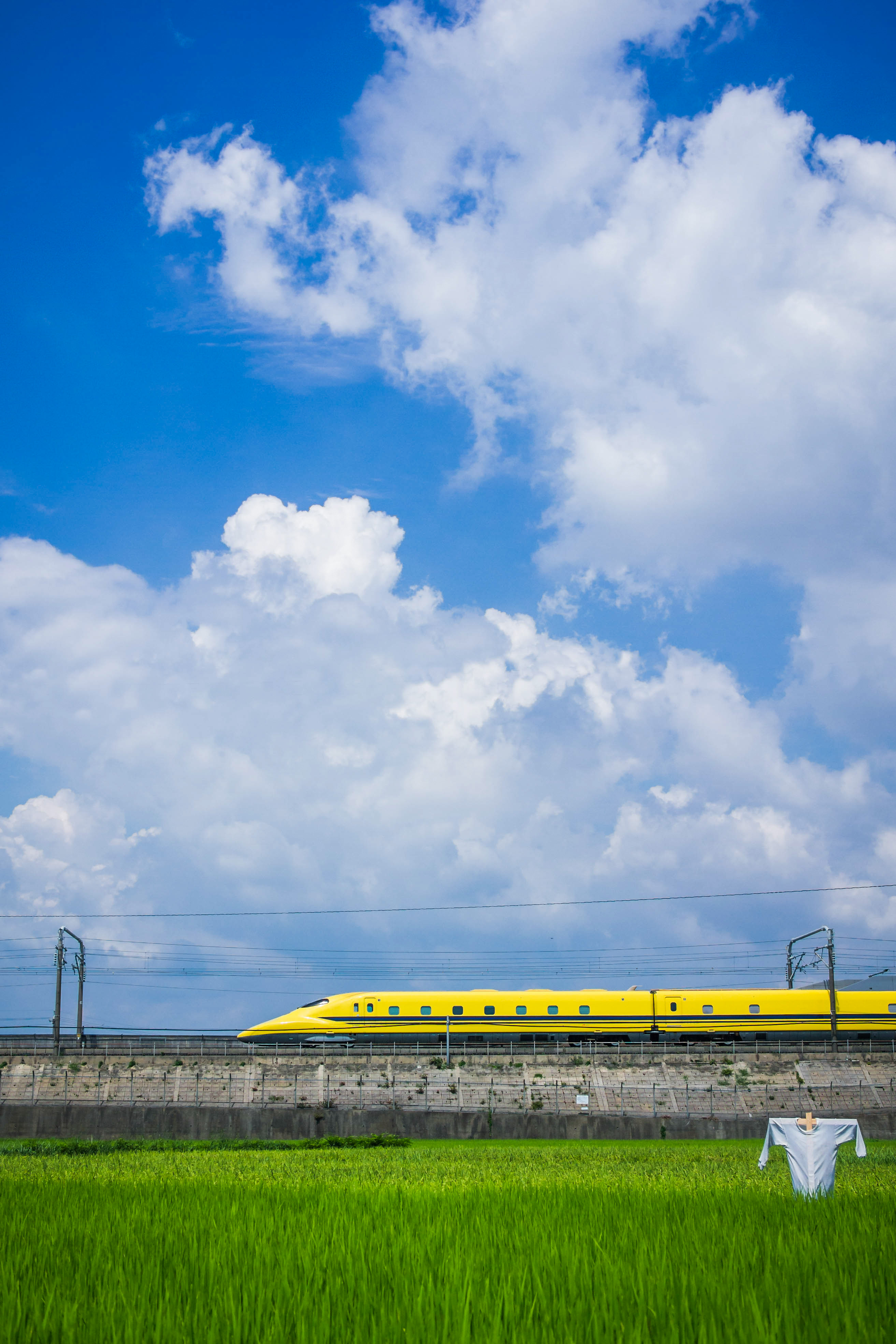 Doctor Yellow, high speed inspection Shinkansen train